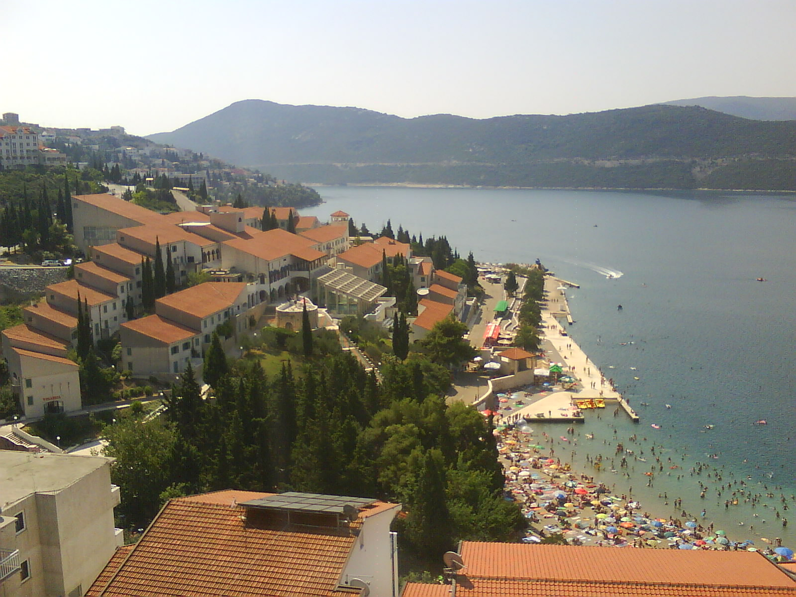 City of Neum